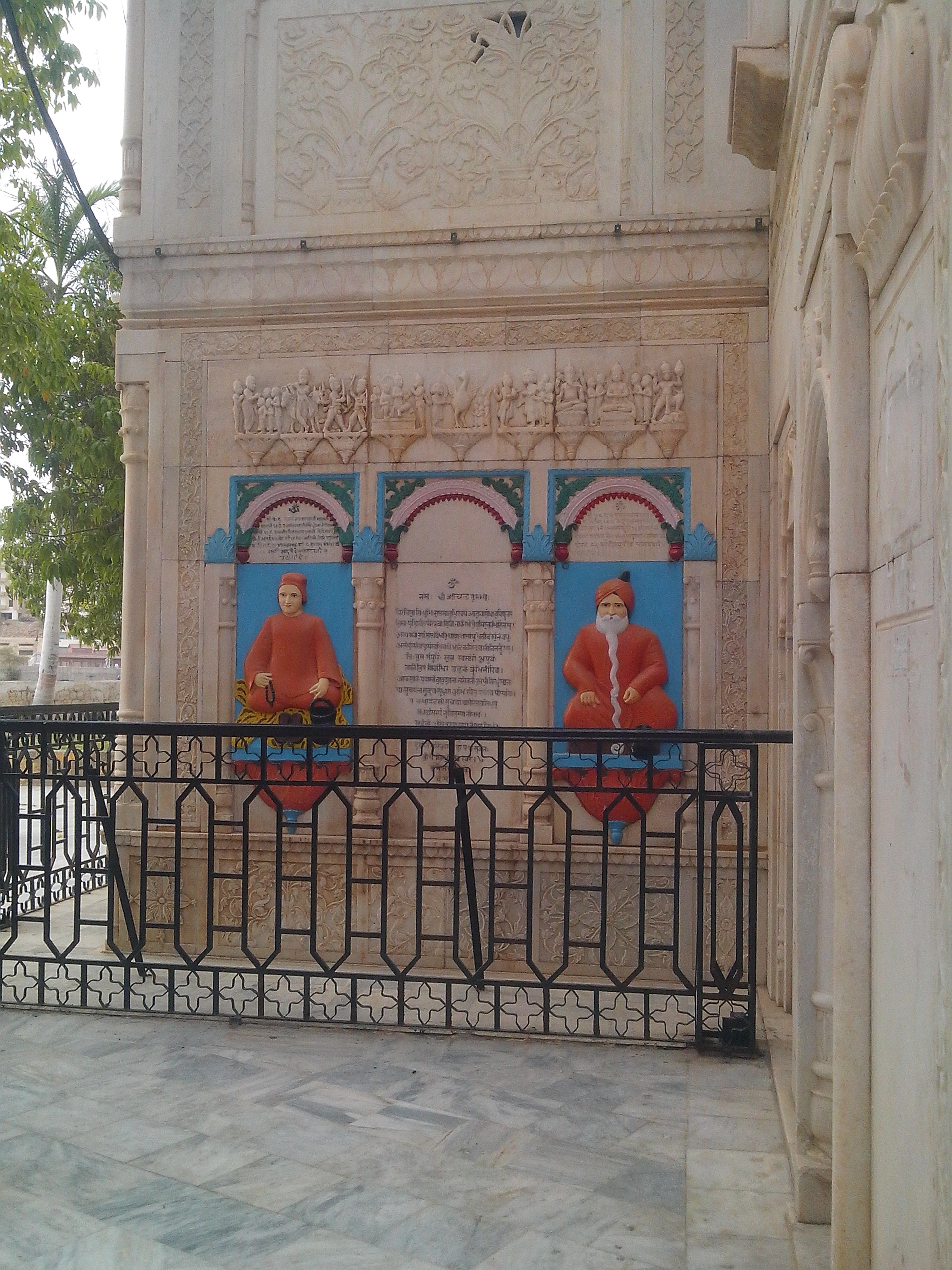 Hindu Temple This is a photo of a monument in Pakistan identified as the SD-U-29